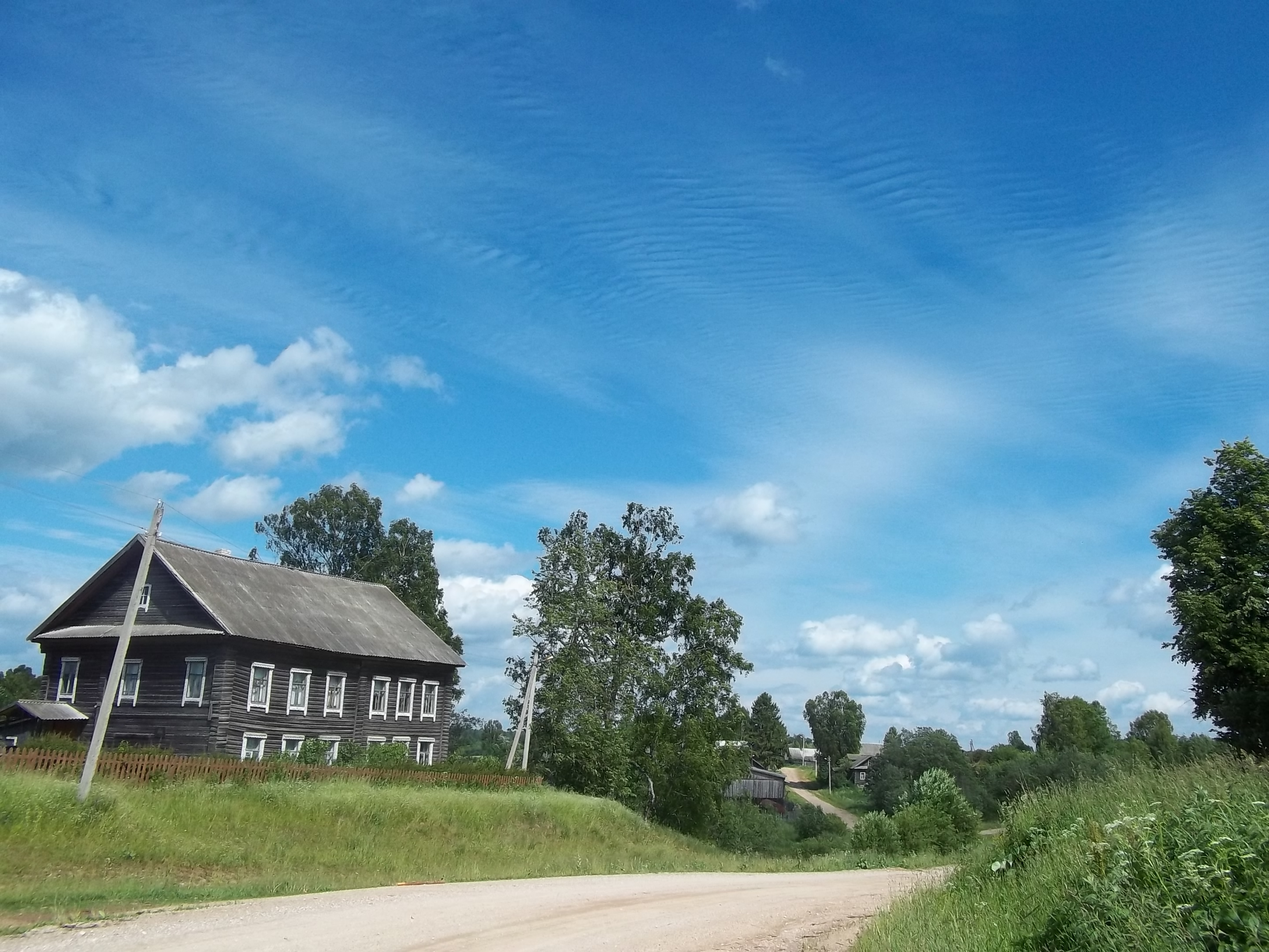 The Muzeum of Borzyni village